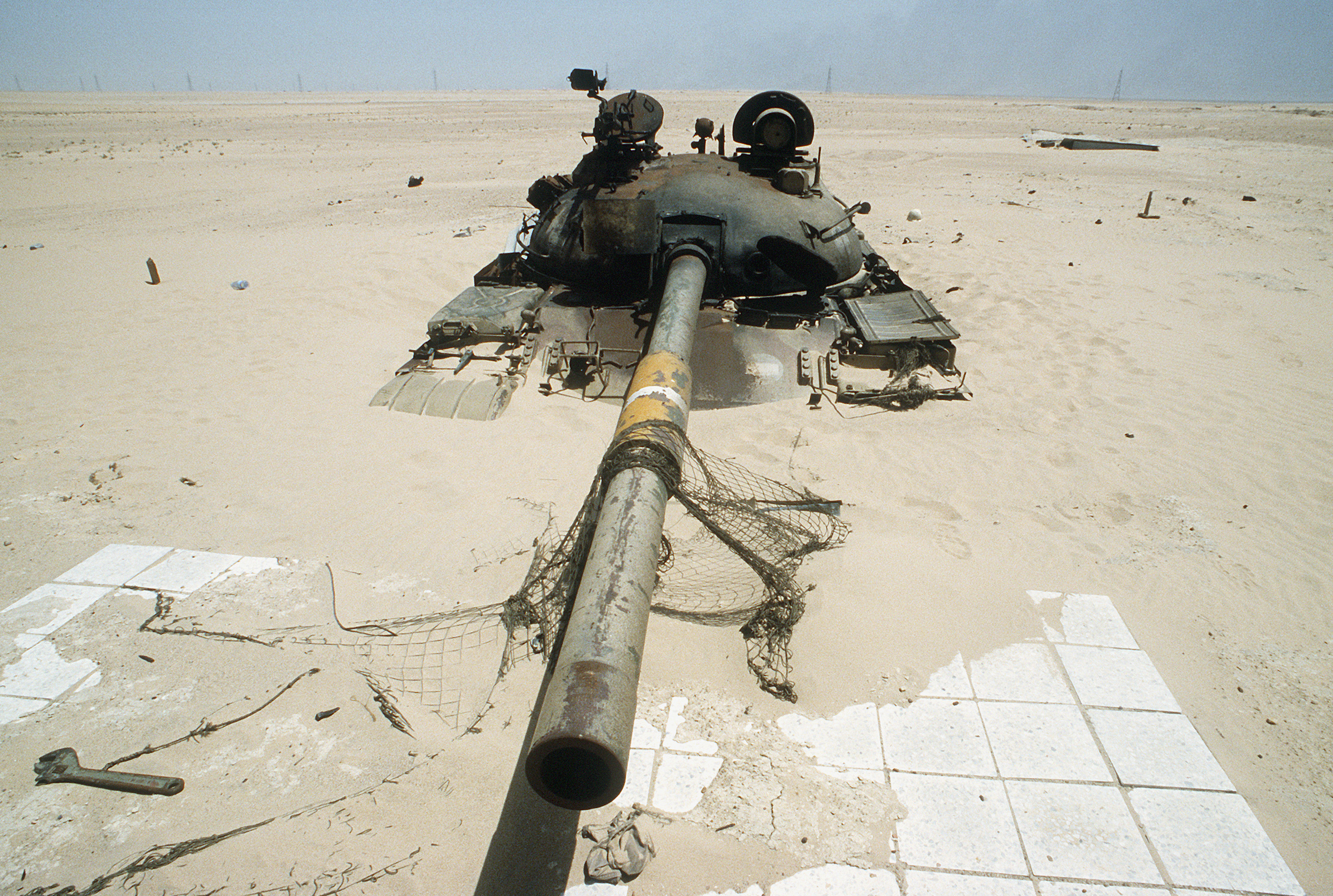 Iraqi T-62 main battle tank destroyed near Ali Al Salem Air Base during Operation Desert Storm.